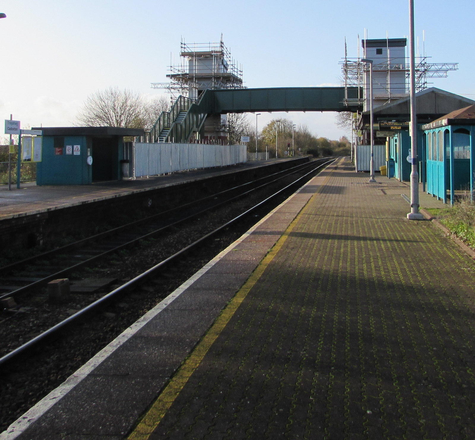 Footbridge construction at Cadoxton station